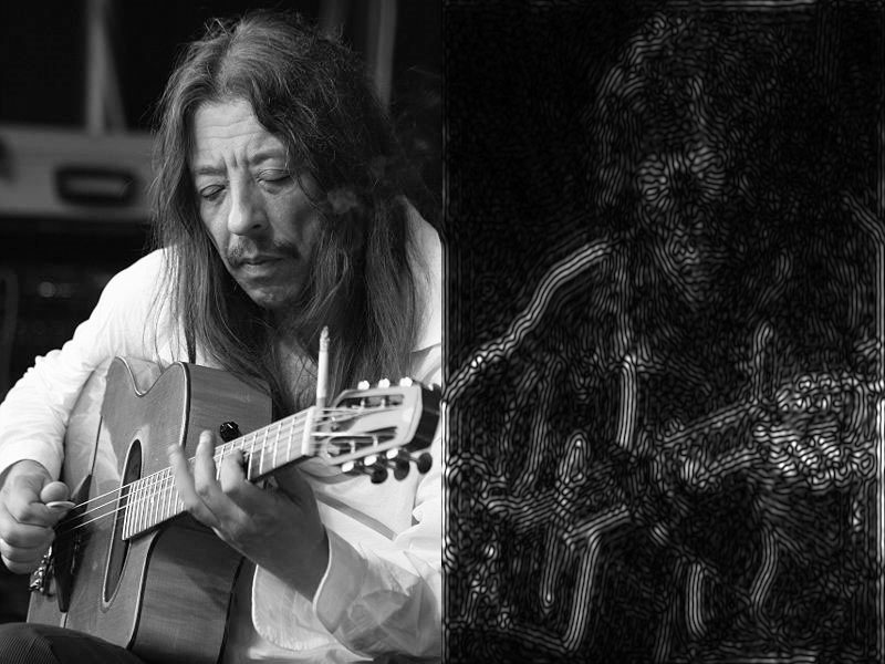 Bandpass filter on a picture. The picture was transformed using FFT and only a small band of frequencies was kept, then the picture was converted back to the proper space using IFFT.